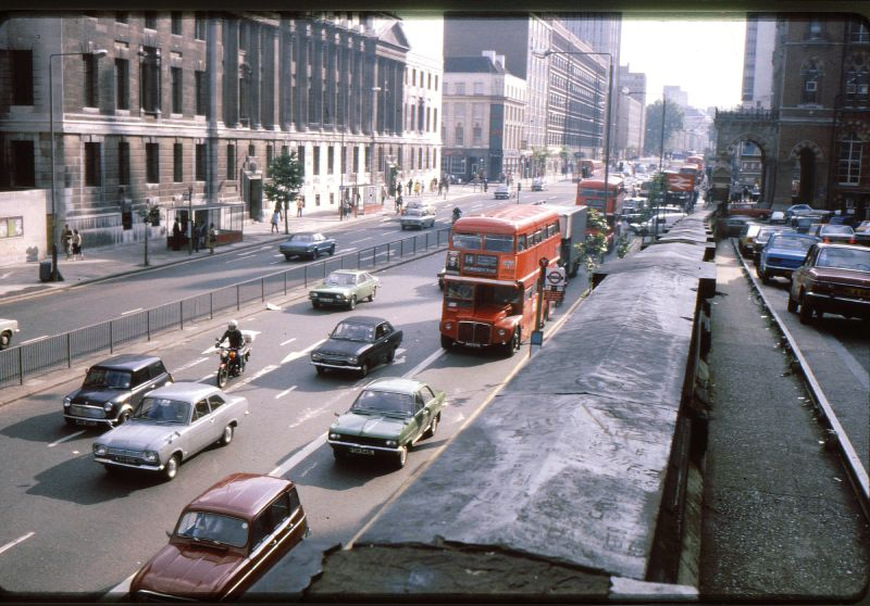 Euston Road (1980)